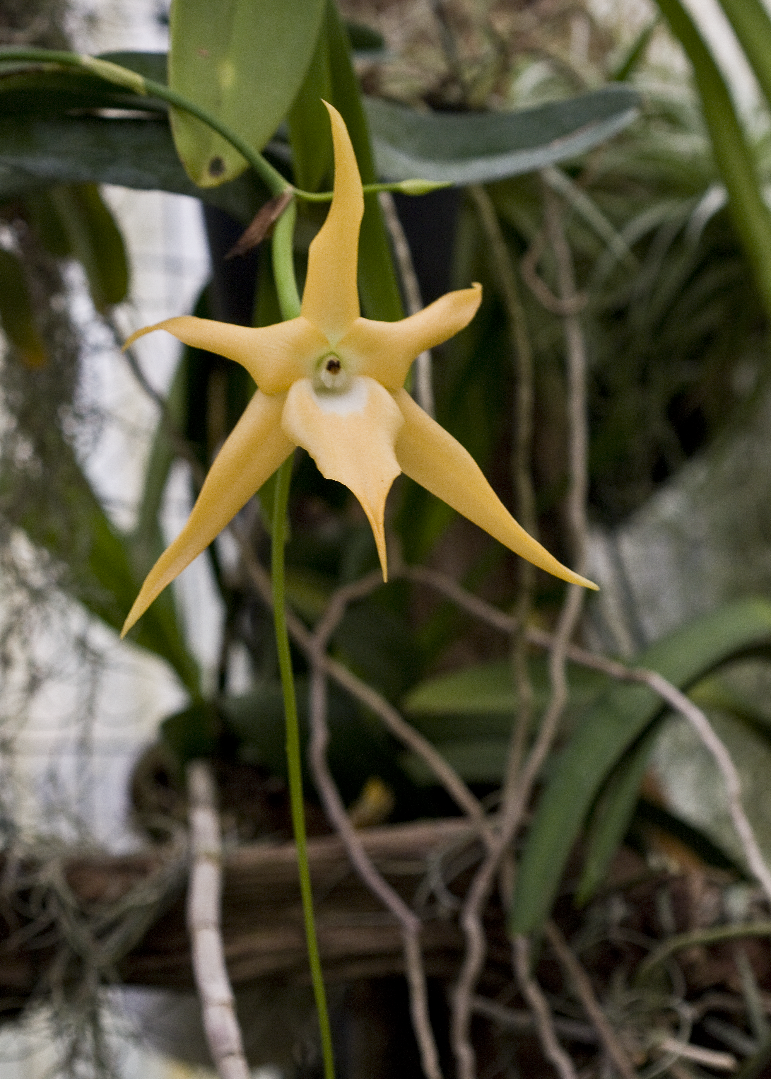 A Darwin's orchid (Angraecum sesquipedale). Jardim Orquidea, Funchal, Madeira.